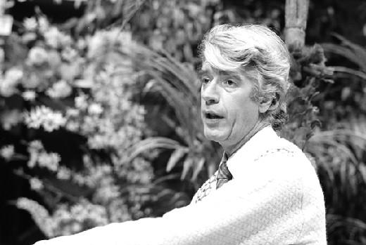 Rudi Carrell